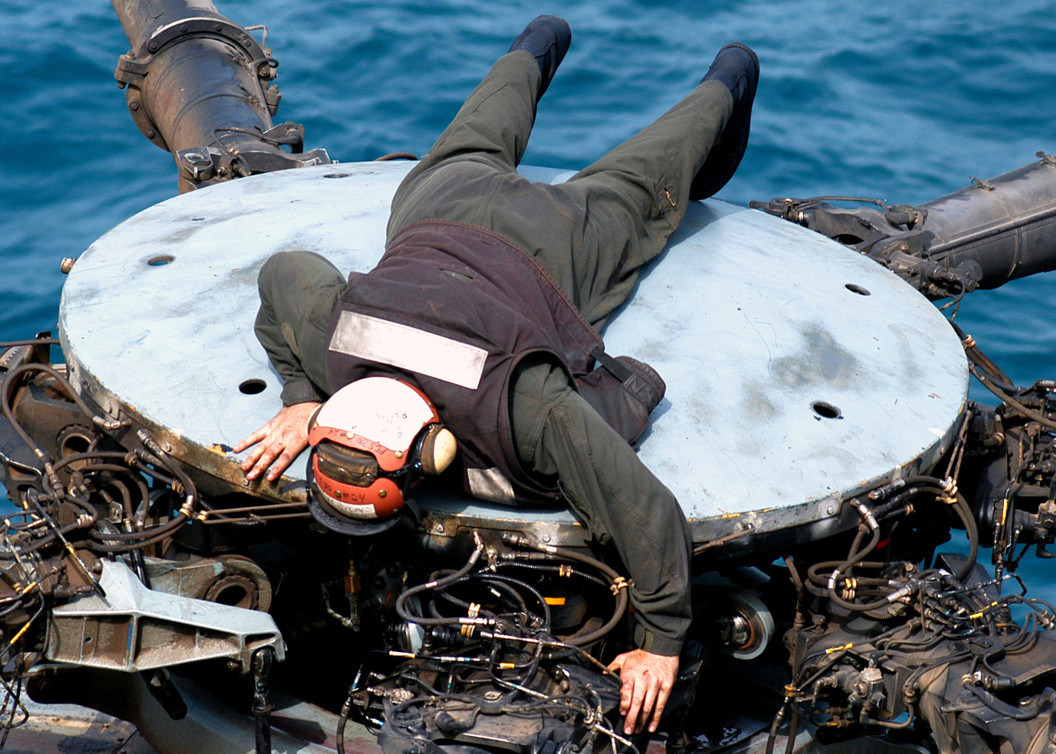 The Arabian Gulf (Mar. 24, 2003) -- At sea aboard USS Kearsarge (LHD 3) A Marine Aviation Maintenance Mechanic visually checks rotor locks on an CH-53E Sea Stallion helicopter prior to flight. Kearsarge is deployed to the Arabian Gulf in support of Operation Iraqi Freedom. Operation Iraqi Freedom is the multinational coalition effort to liberate the Iraqi people, eliminate Iraq's weapons of mass destruction and end the regime of Saddam Hussein. U.S. Navy photo by Photographer’s Mate 2nd Class Alicia Tasz. (RELEASED)